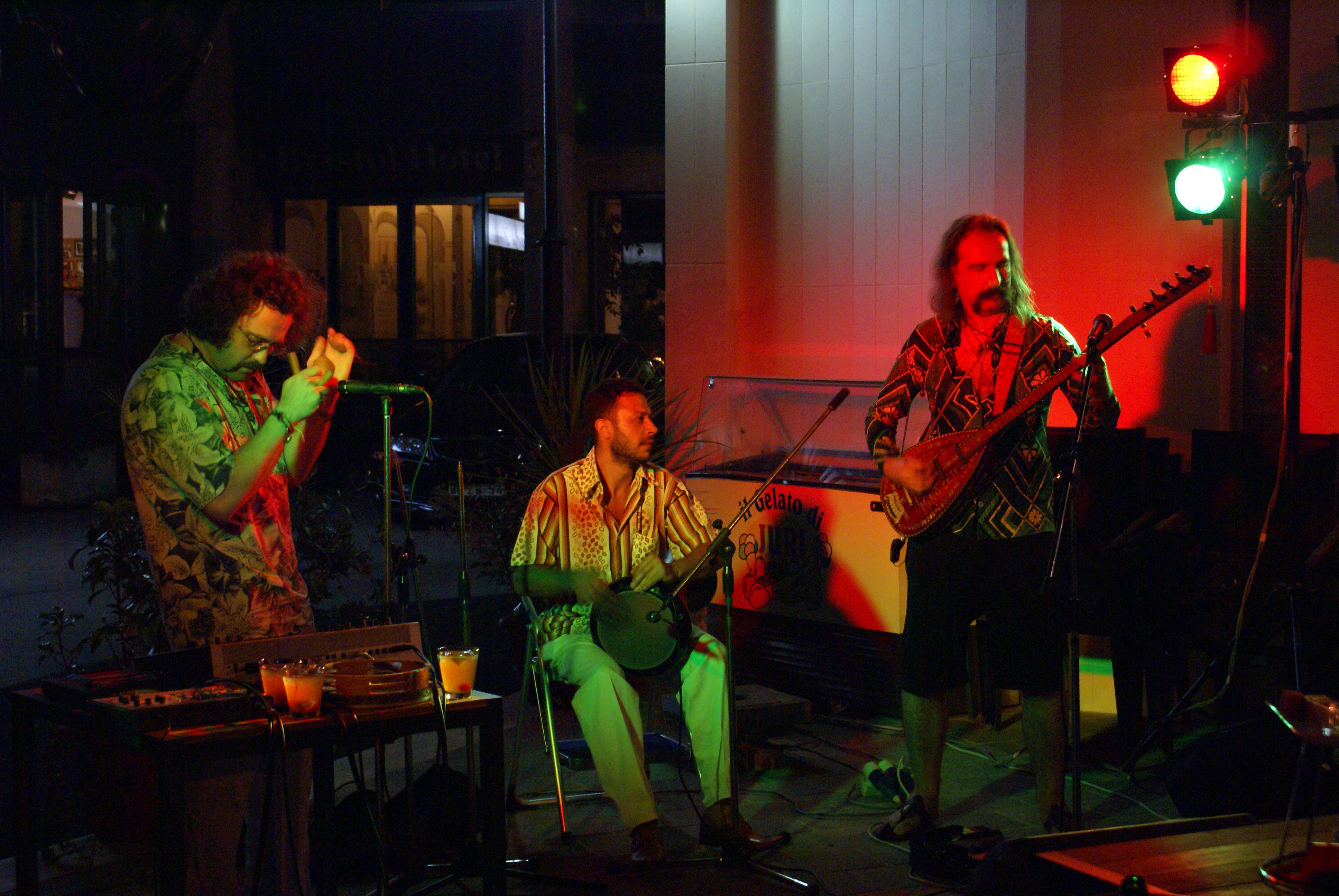 The Turkish band Baba Zula from Istanbul playing a concert by the beach in Pesaro, Italy.